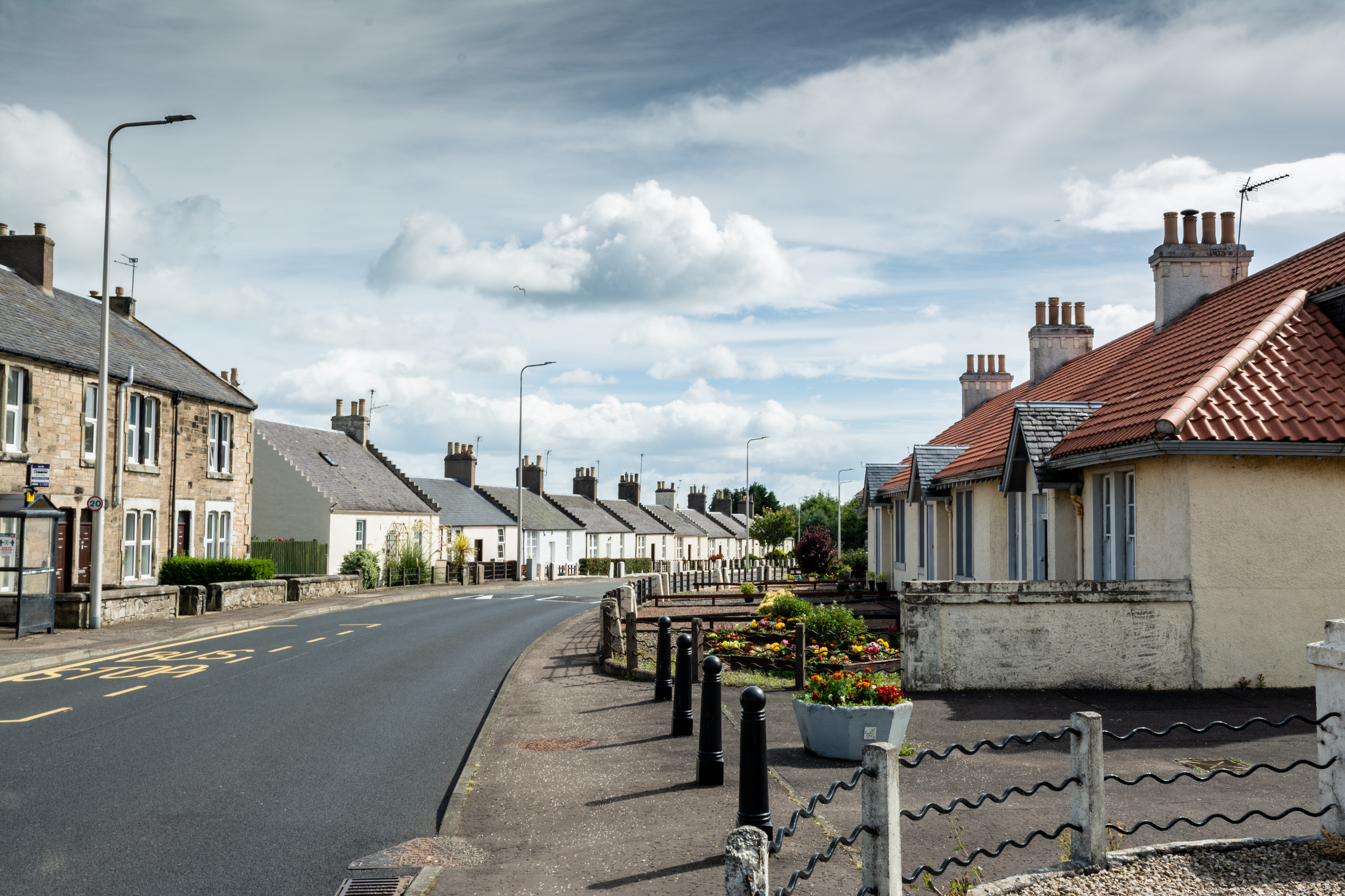 Coaltown of Wemyss, Scotland, view of main street